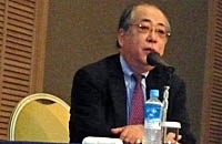 Hajime Izumi, Professor of the Faculty of International Relations, University of Shizuoka, spoken about North Korea's reaction to the Obama Administration in Shizuoka City, Shizuoka Prefecture on September 29, 2009.